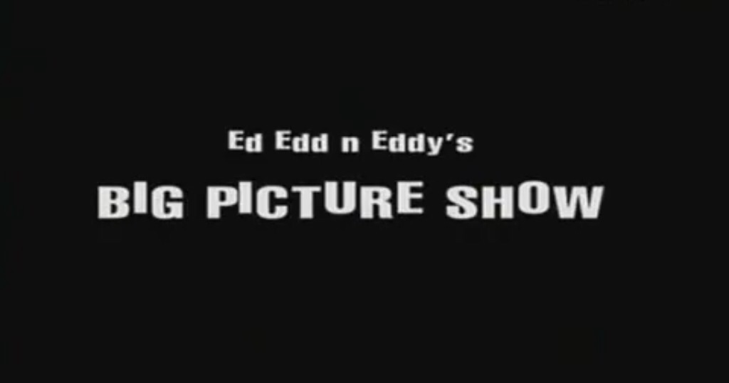 Ed, Edd n Eddy's Big Picture Show title card